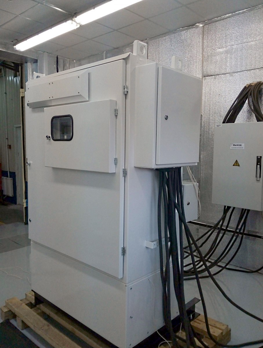 Submersible pump control station with 18-pulse rectifier